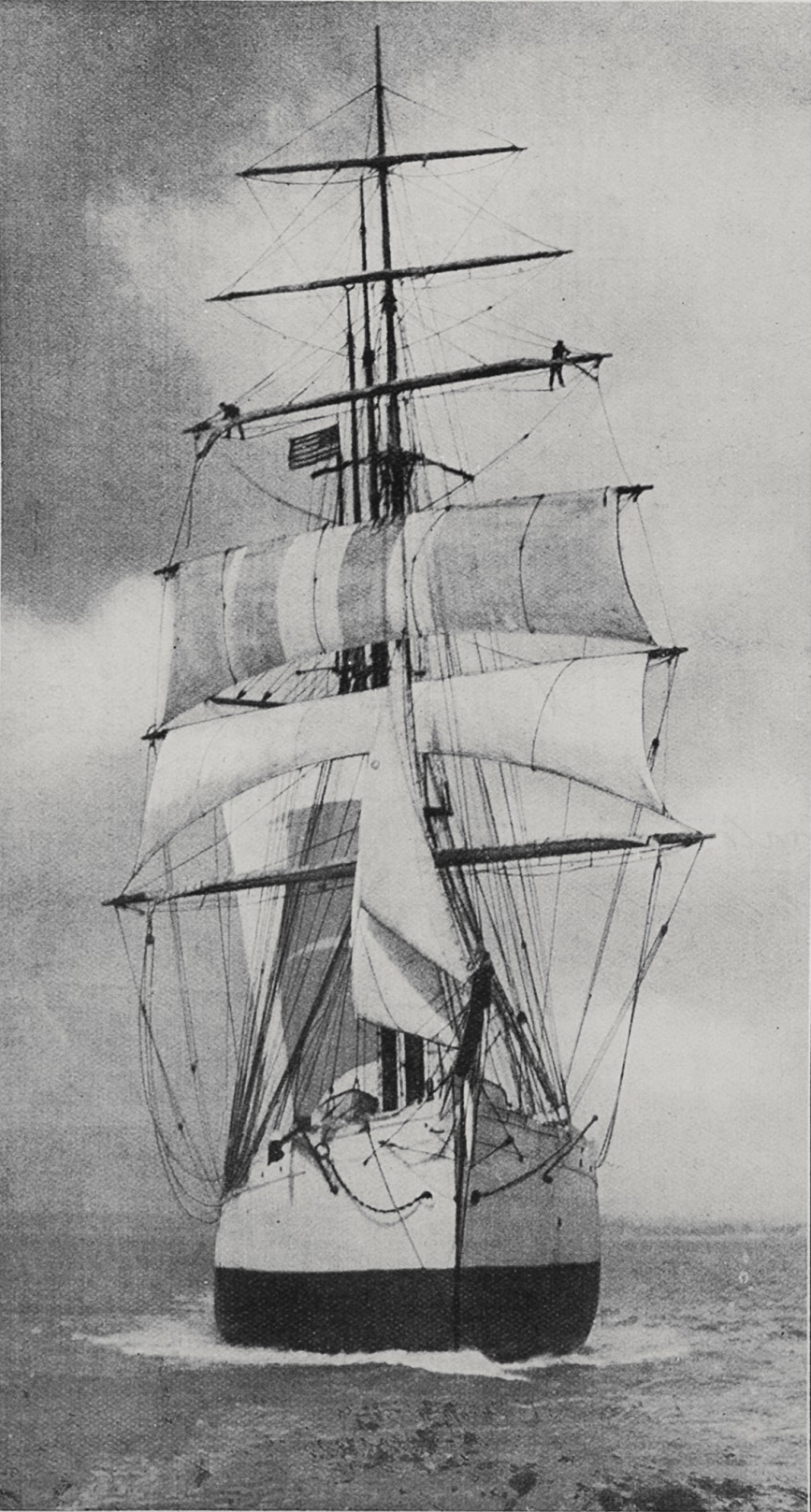 The American barquentine Amaranth which wrecked on Jarvis Island while enroute from Newcastle, New Zealand to San Francisco.